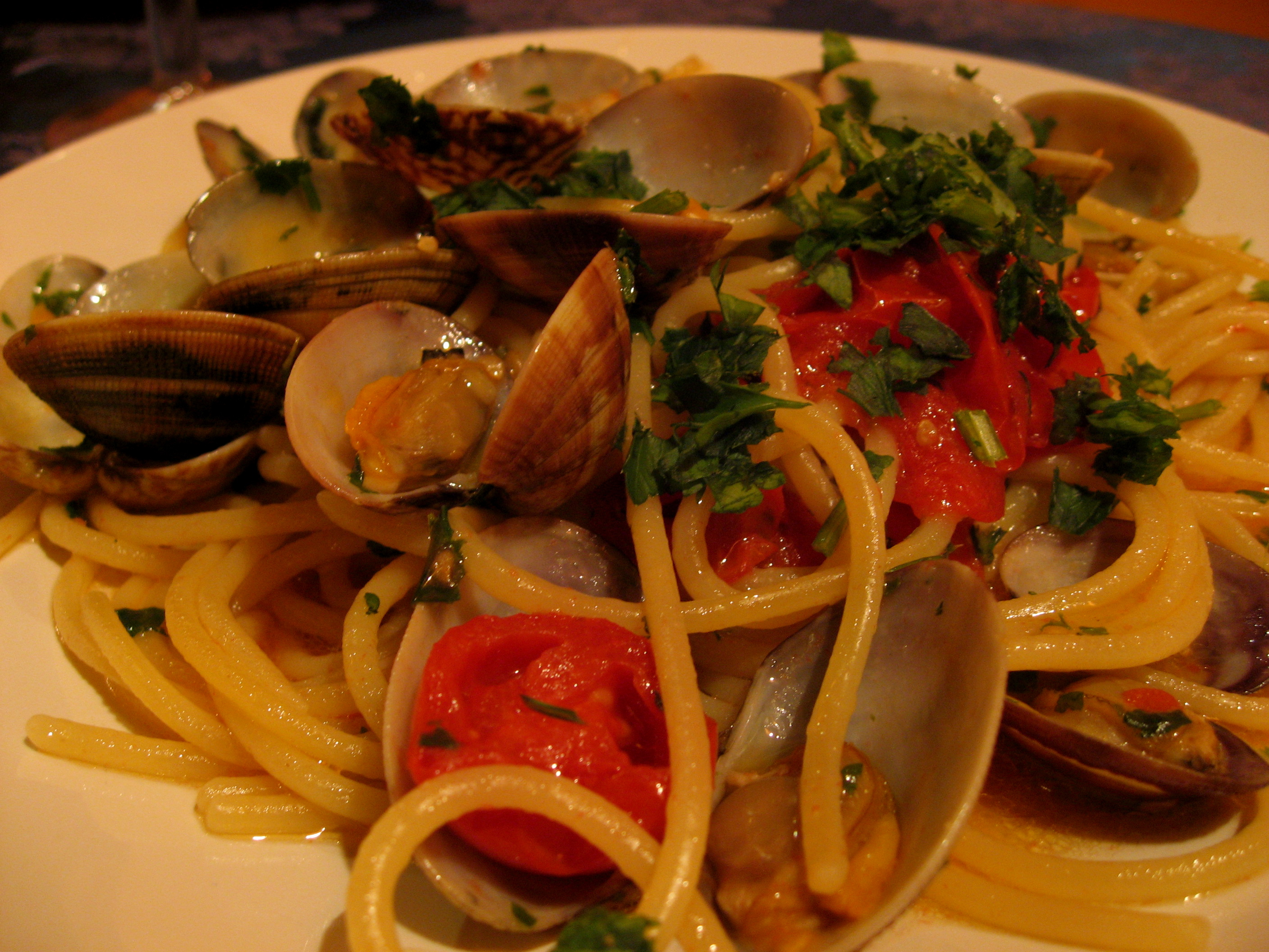 Pasta vongole in Naples, Italy.